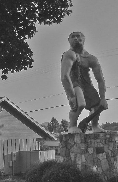 Image by M. D. Vaden of Oregon. Taken July 2007 in Grants Pass, Oregon, of the Caveman statue. Image converted to B&W - edited brightness. Statue in this image located next to visitor center at east side of town.